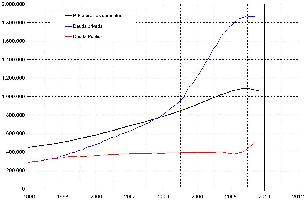 Evolution of the Spanish GDP and public and private debt. The huge increase in private debt is due to the housing bubble.